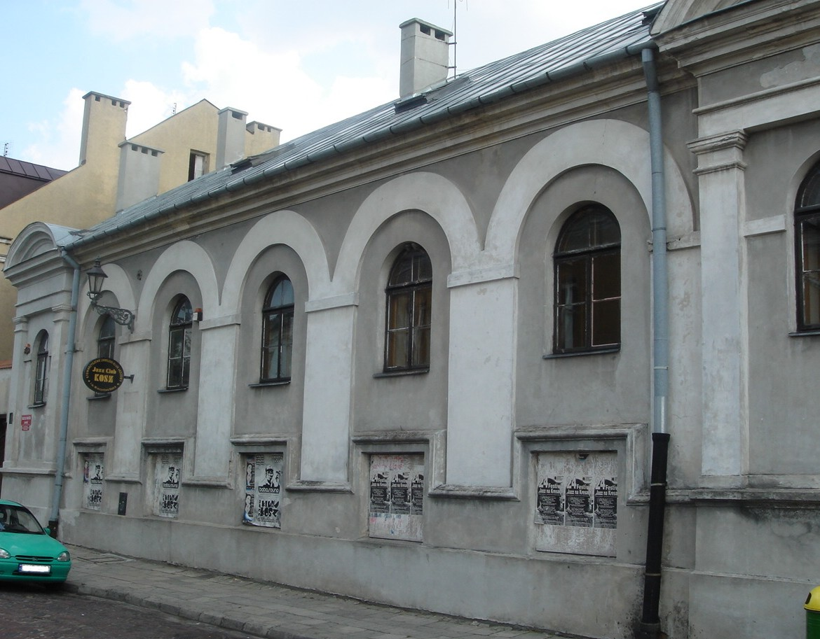 Former mikvah in Zamość, Poland 10.1984.